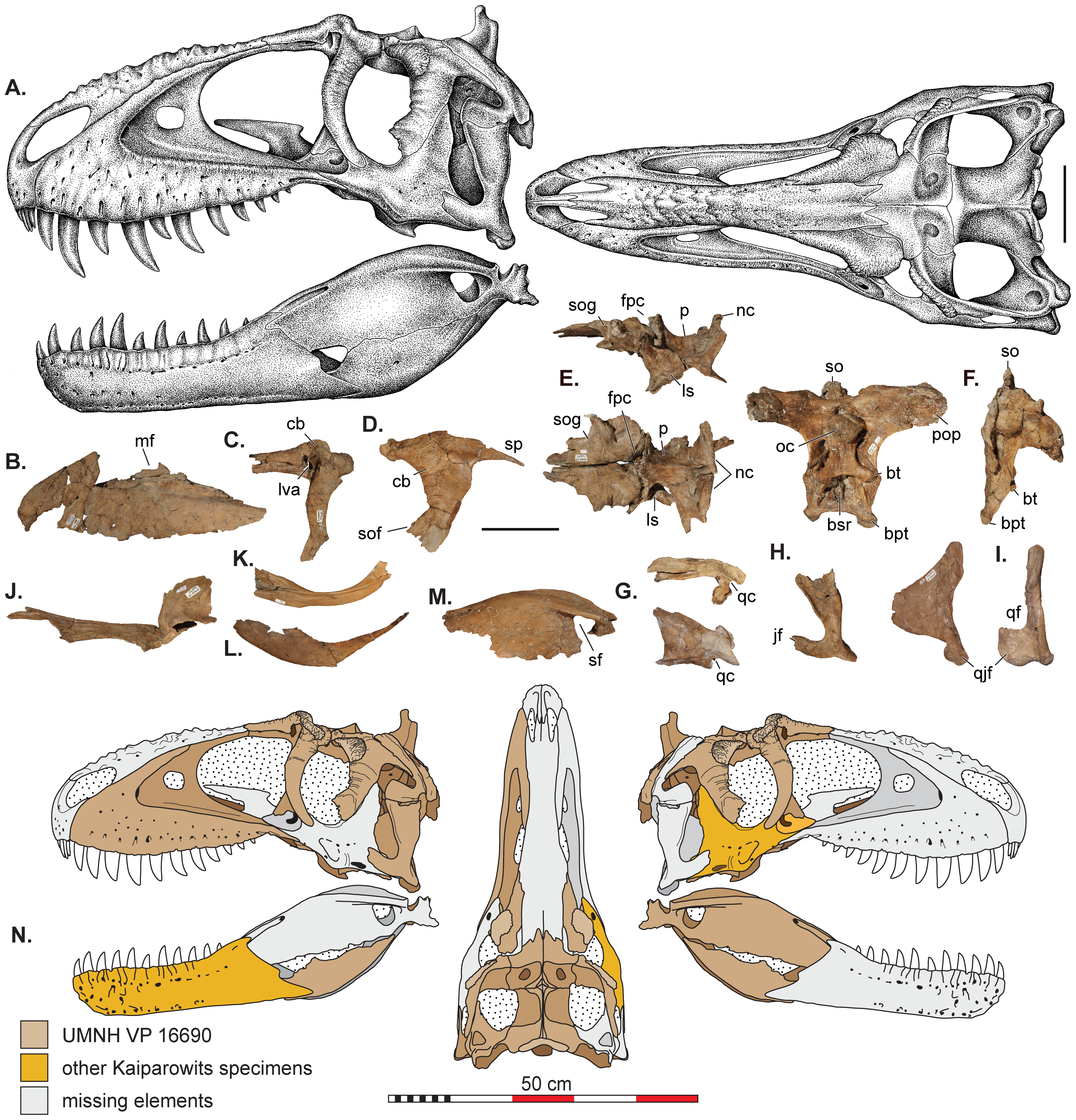 Skull reconstructions and selected cranial elements of Teratophoneus curriei. These stippled reconstructions (A) are based on all available material. Some of the preserved elements of the referred specimen T. curriei (UMNH VP 16690) including: (B) left maxilla in lateral view, (C) both lacrimals superimposed and in lateral view; (D) photoreversed postorbital in lateral view; (E) frontals, parietals, and laterosphenoids in lateral and dorsal views; (F) braincase in caudal and lateral view; (G) squamosal in lateral and dorsal views; (H) quadratojugal in lateral view; (I) quadrate in lateral and caudal views; (J) left palatine in lateral view; (K) prearticular in left lateral view; (L) angular in left lateral view; (M) surangular in lateral view. Element recovery maps (N) of T. curriei (UMNH VP 16690) from which the reconstruction in A are derrived. Other Kaiparowits T. curriei specimens include two right jugals (UMNH VP 16691 & BYU 8120) and a left dentary from BYU 8120. Abbreviations: bpt, basipterygoid process; bt, basal tubera; bsr, basisphenoid recess; cb, cornual boss; fpc, frontoparietal midsagittal crest; jf, jugal flange of the quadrate; ls, laterosphenoid; lva, lacrimal vacuity; mf, maxillary fenestra; nc, nuchal crest; oc, occipital condyle; p, parietal; pop, paroccipital process; qc, quadrate cotylus; qf, quadrate foramen; sf, surangular foramen; so, supraoccipital; sof, suborbital flange; sog, supraorbital groove. All scale bars represent 10 cm except N which represents 50 cm.